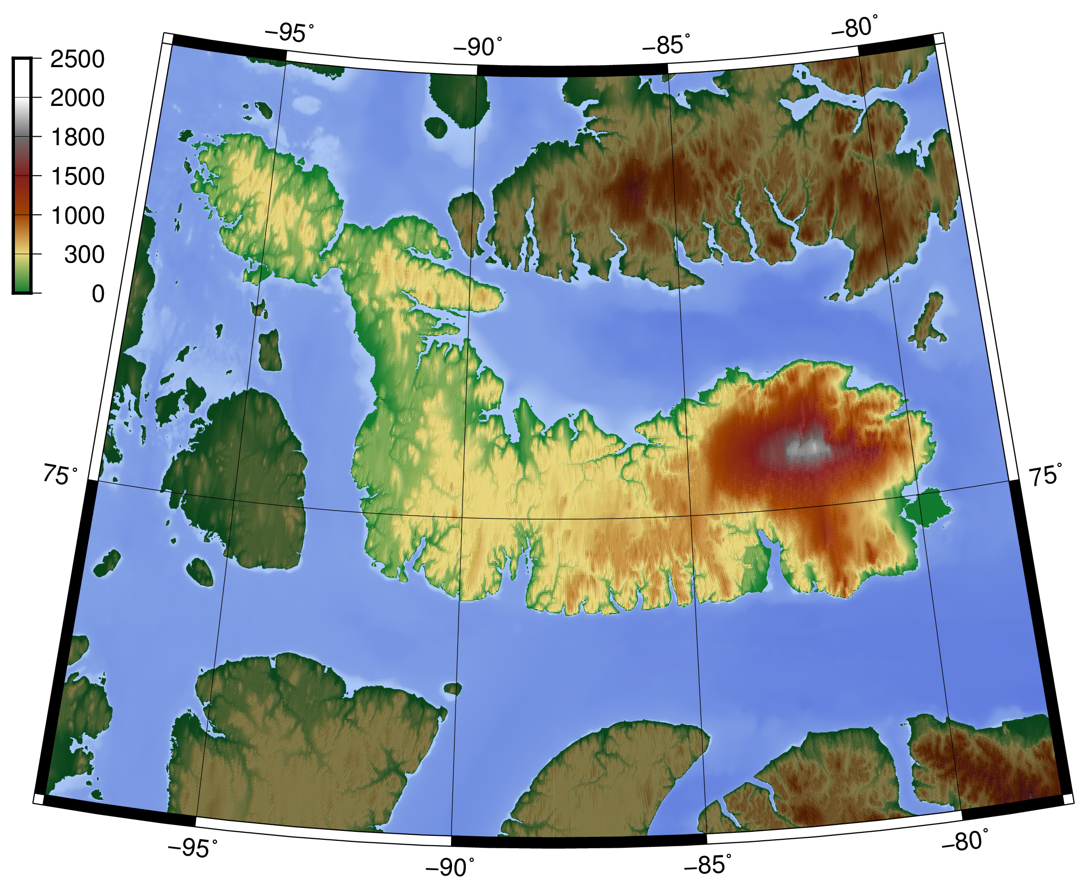 Topography of Devon Island, created with GMT 5.2.1